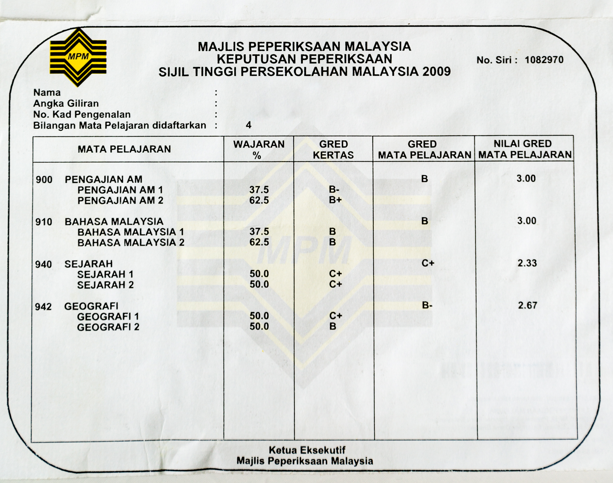 Education in Malaysia: Grade certificate of Sijil Tinggi Persekolahan Malaysia (STPM) or (engl.) Malaysian Higher School Certificate)